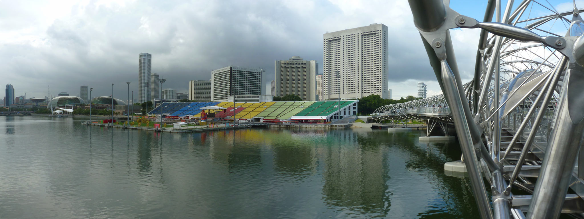 The Float@Marina Bay viewed from the Helix Bridge.